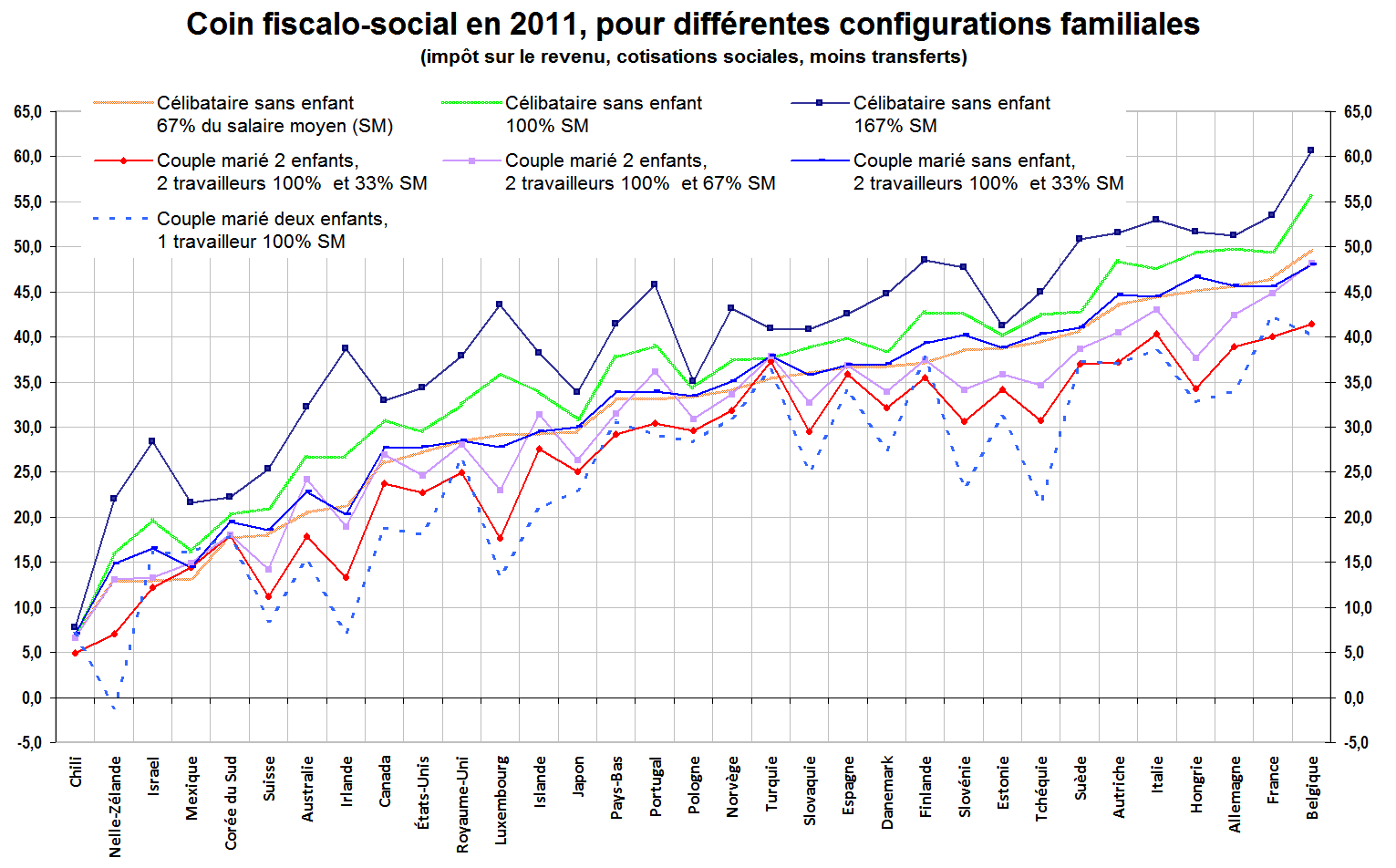 Graphic of Tax wedge in OECD Countries, in 2011 (legend in French)